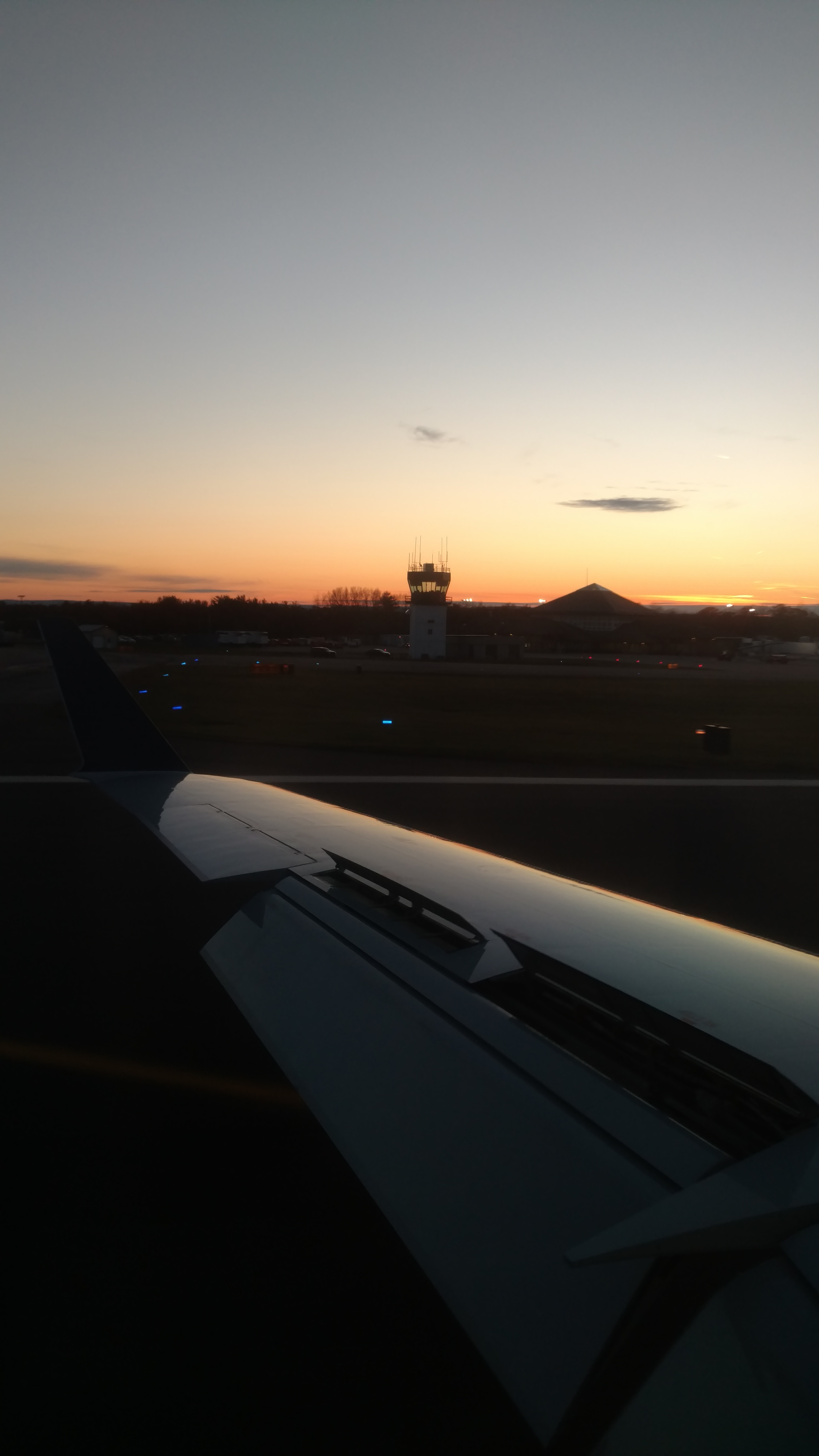 taken by me down the wing of a Delta Connect Bombardier CRJ